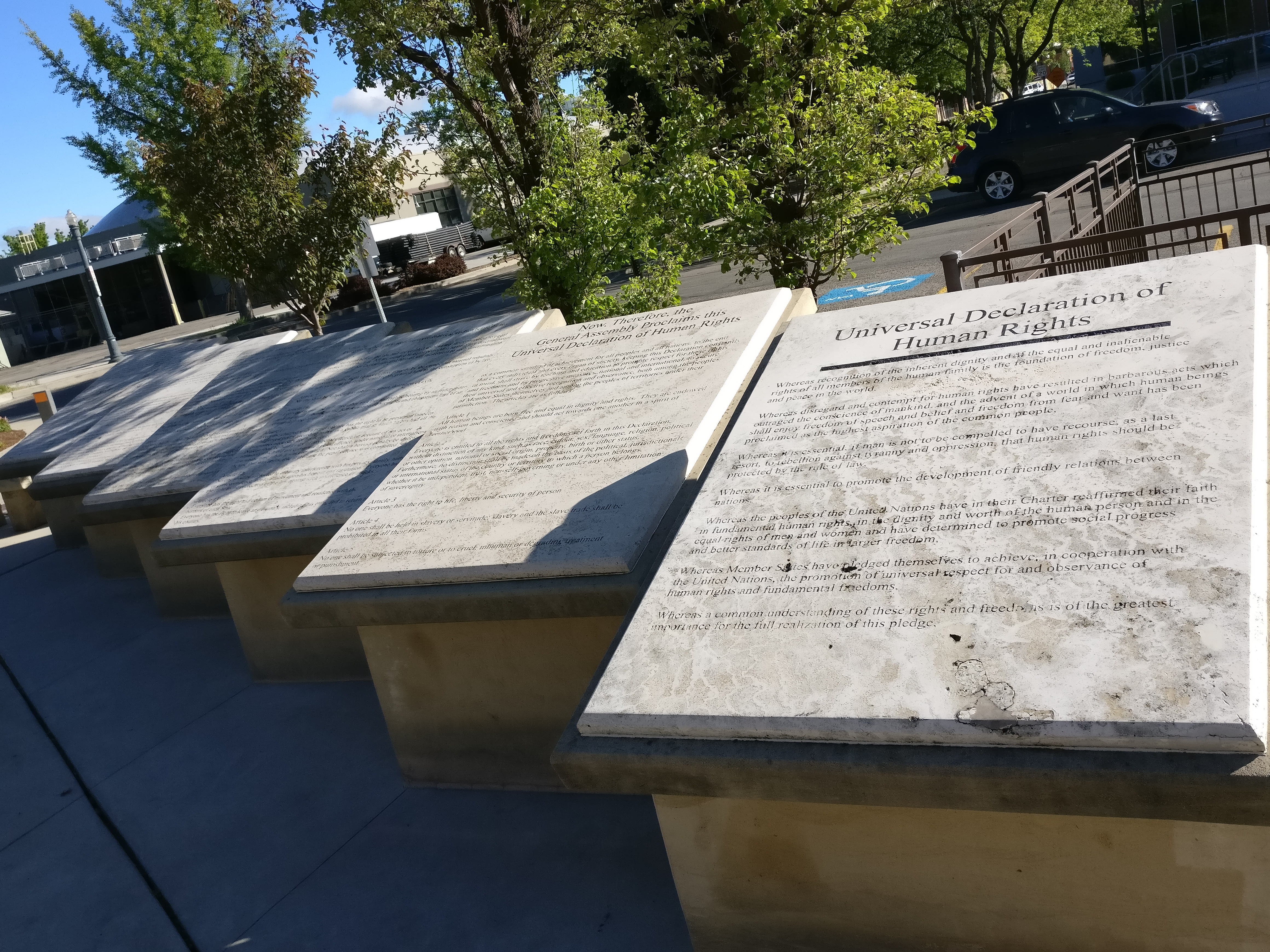 The Universal Declaration of Human Rights in monumental form at the Anne Frank Human Rights Memorial in Boise, Idaho is one of the few places on the planet where the complete text is on permanent public display.